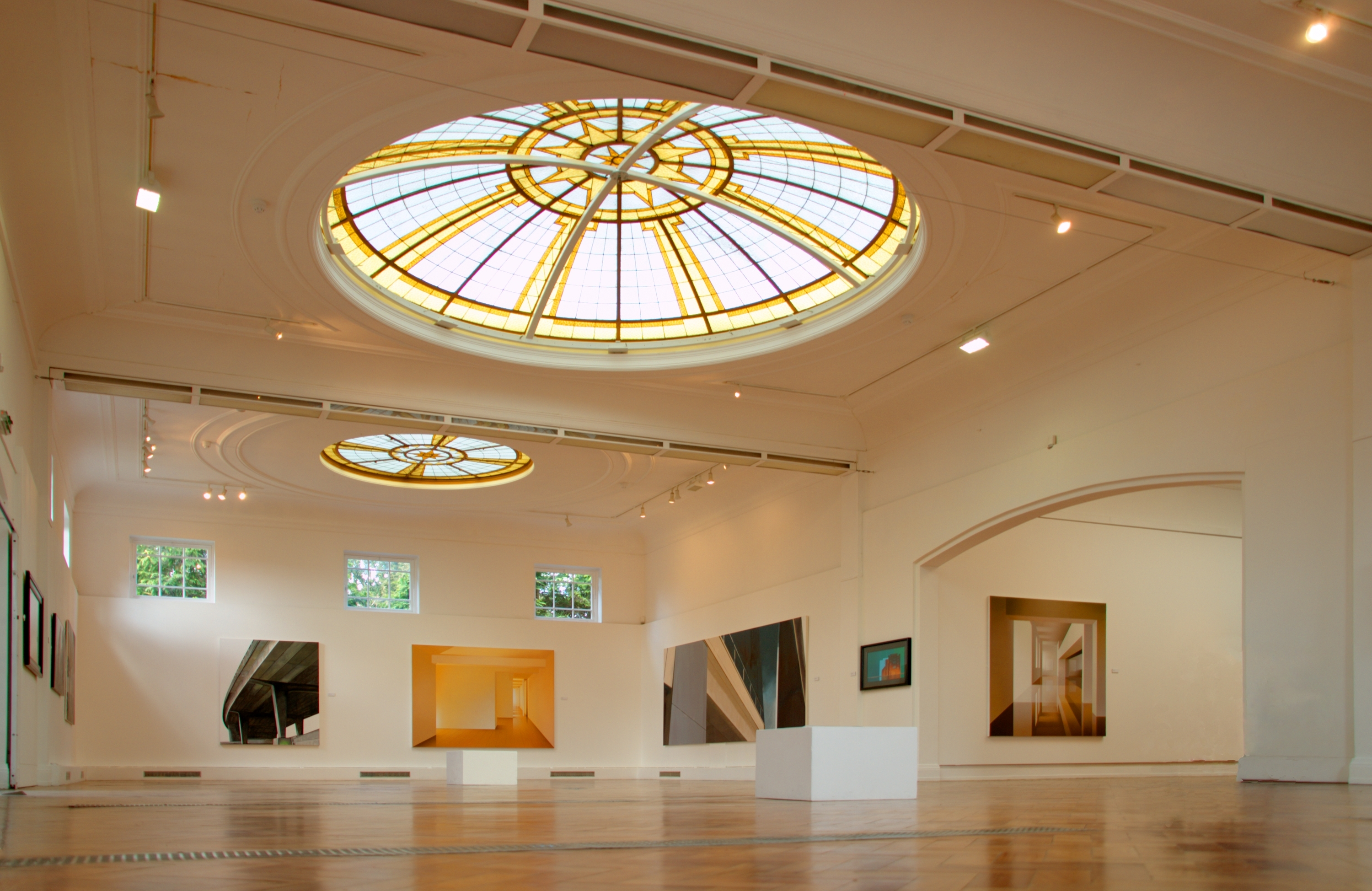 Pitzhanger Manor Gallery. Part of the historic Pitzhanger Manor site in Ealing, W5. London.It serves as a mix cultural venue as well as exhibiting contemporary professional art. It is the largest public art gallery space in West London. Situated in Walpole Park, Mattock Lane, London W5 5EQ